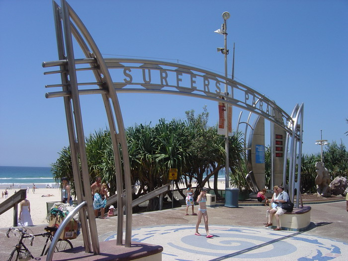 Entrance to Surfer's Paradise Beach, Gold Coast, Queensland.